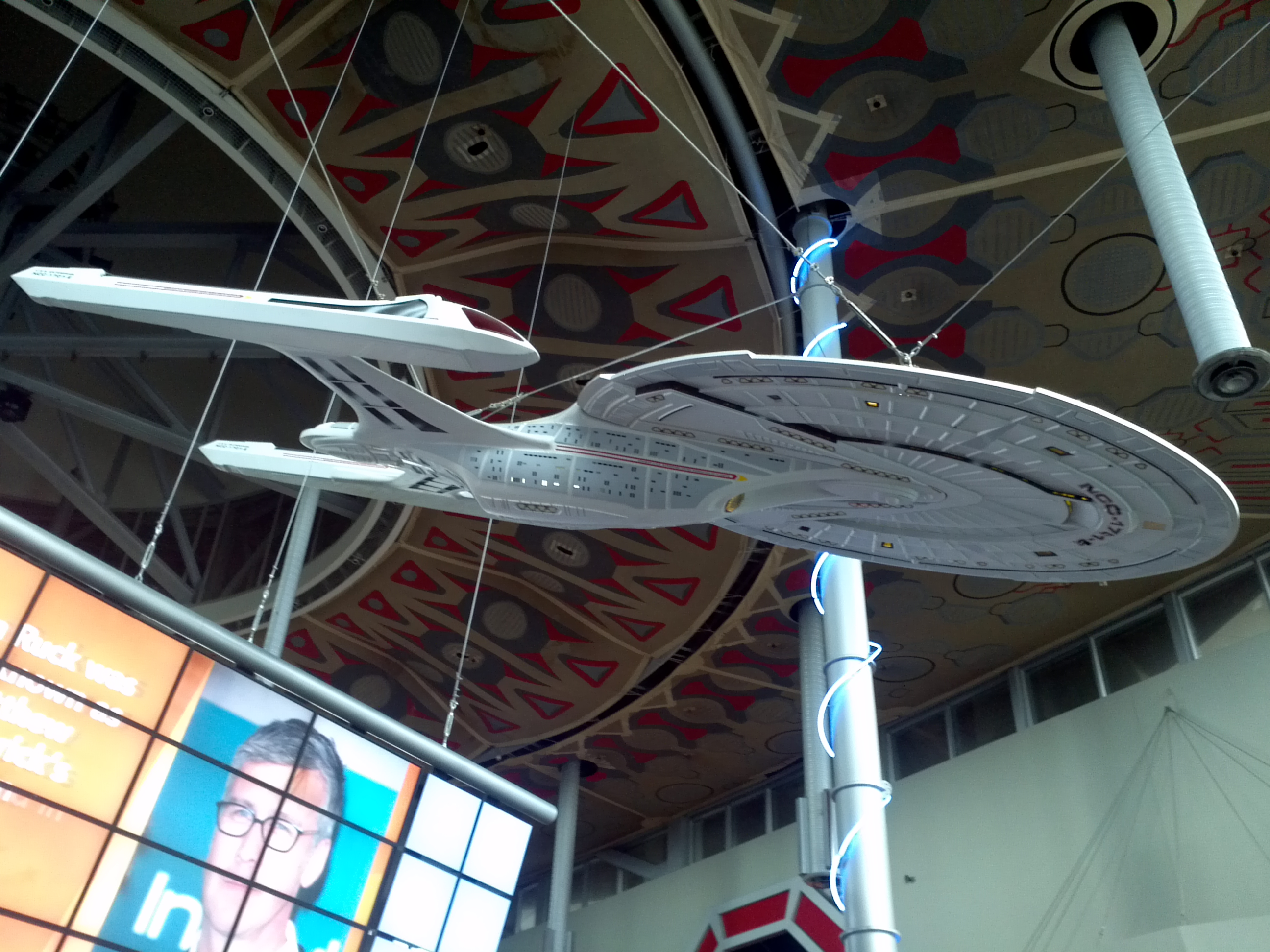 A smaller scale replica of the Starship Enterprise NCC-1701-E at Famous Players Colossus theatre in Langley, BC, Canada